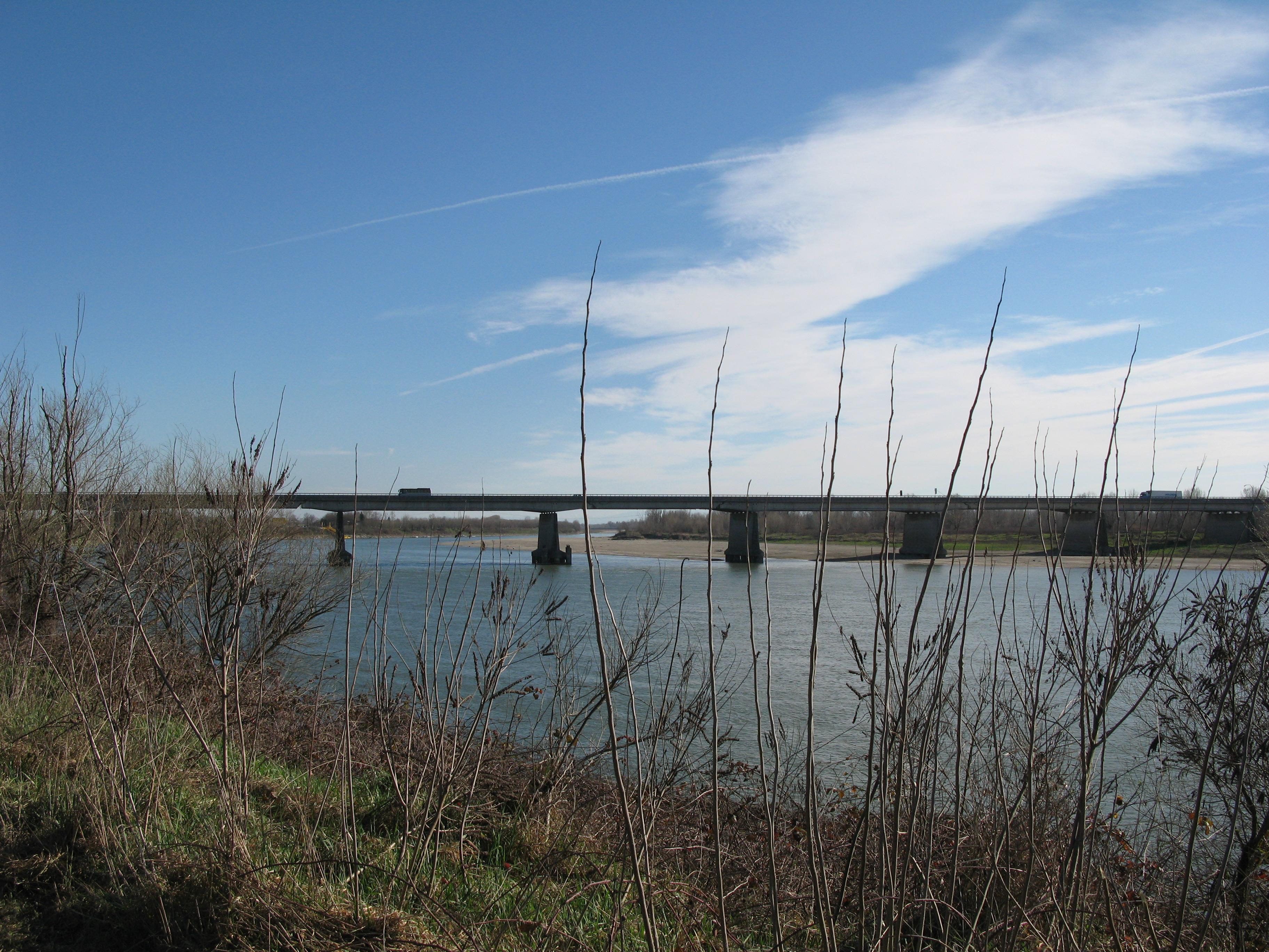 The Po river near Cremona, Italy.